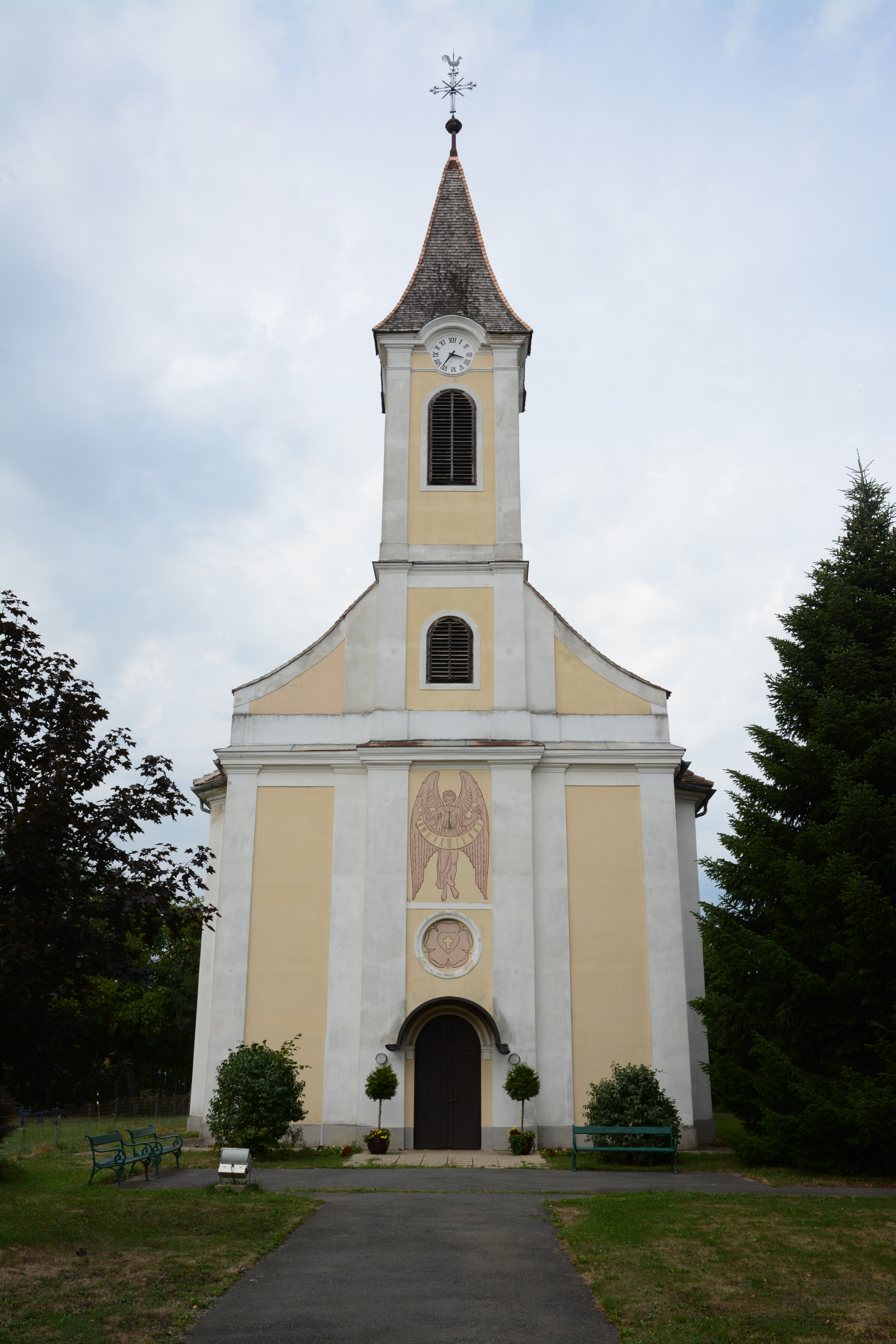 Church Eltendorf